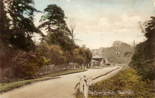 Barnet